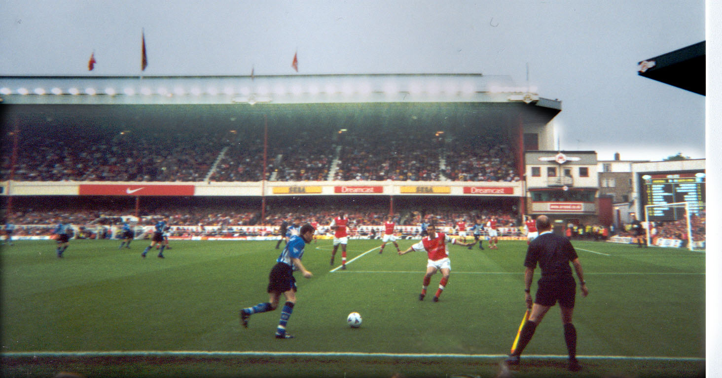 Sheffield Wednesday in Arsenal 2000